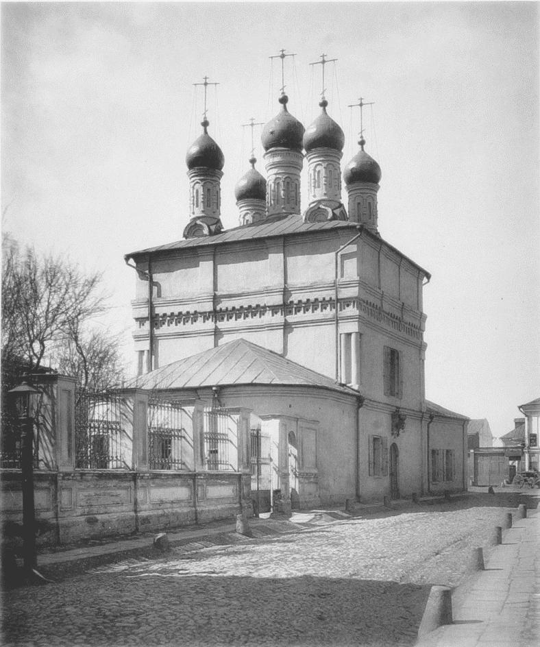 Church of Saint Michael and Saint Fyodor, Martyrs of Chernigov, Moscow.